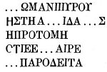 Inscription in St Demetrius Church in Ano Vrondou